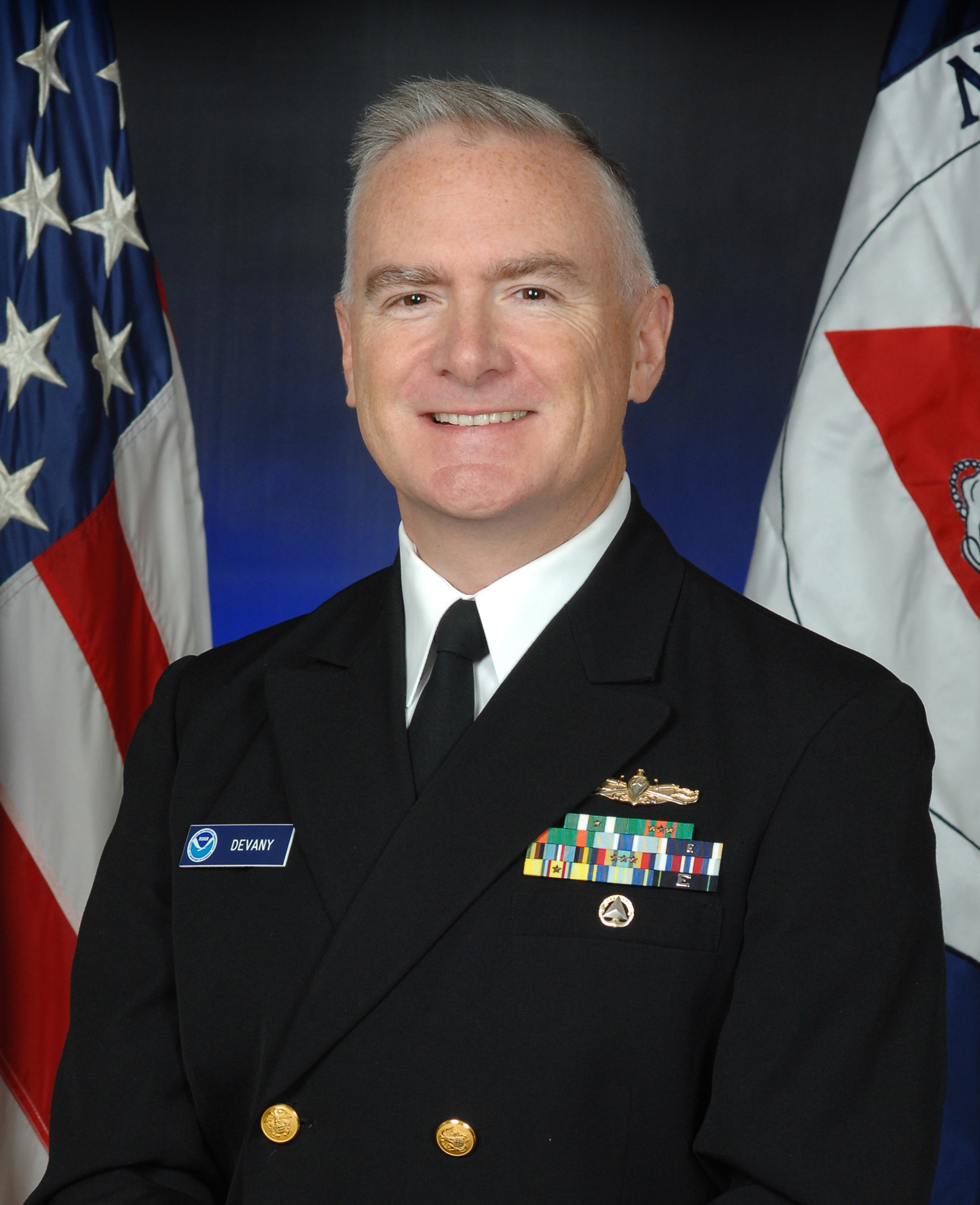 VADM Devany, new NOAA Deputy Under Secretary